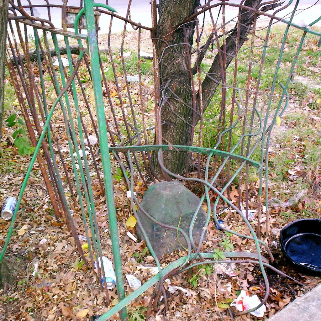 District of Columbia boundary stone NE 3, that is the stone 3 miles southeast of the northernmost corner of DC. Placed in 1791-1792 by Andrew Ellicott and Benjamin Banneker. for a map of these stones.